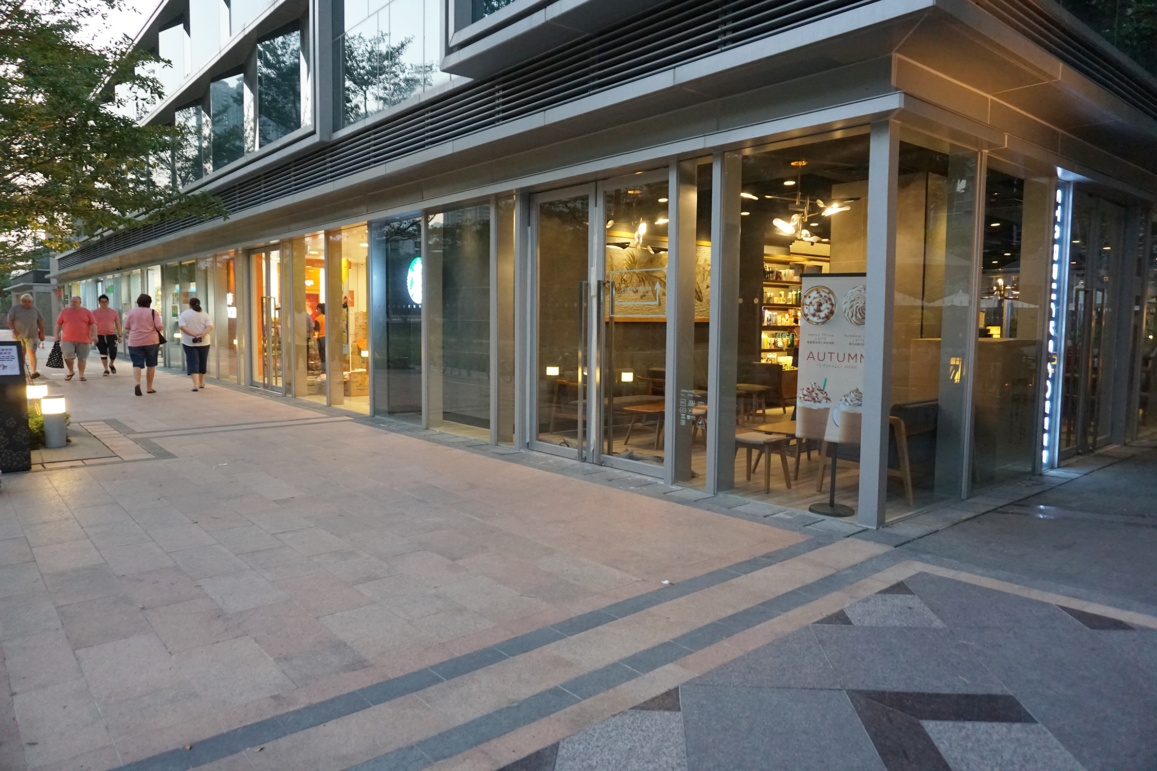 Century Link in Tung Chung, Hong Kong.